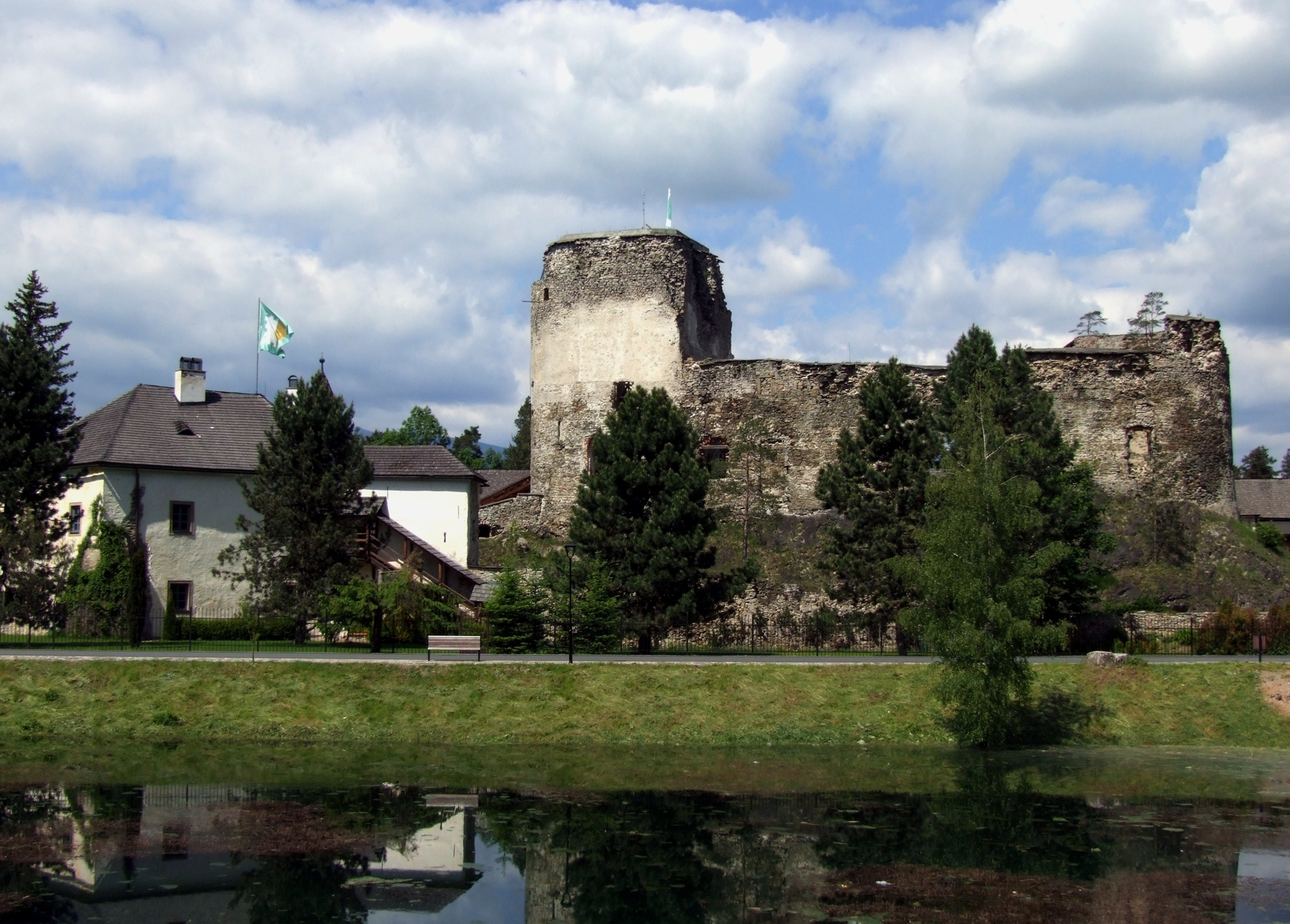 Liptovský Hrádok (Neuhäusel in der Liptau, Liptóújvár) - castle and manson